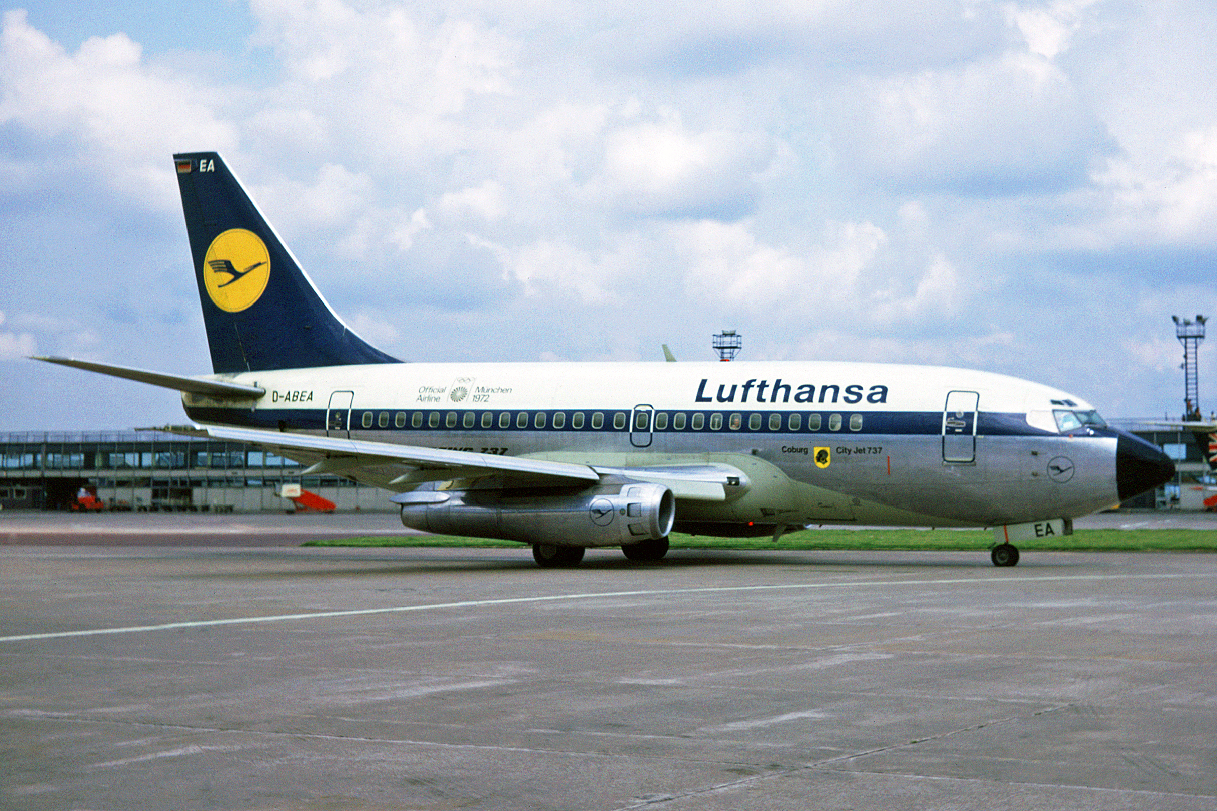 A very rare B737-130, second prototype, line No:2. First flight 13-May-67 & delivered to Lufthansa 24-Apr-68. It later saw service with America West and Ansett New Zealand. It was broken up at Marana, AZ, USA in Oct-95. Note the Munich Olympics sticker.